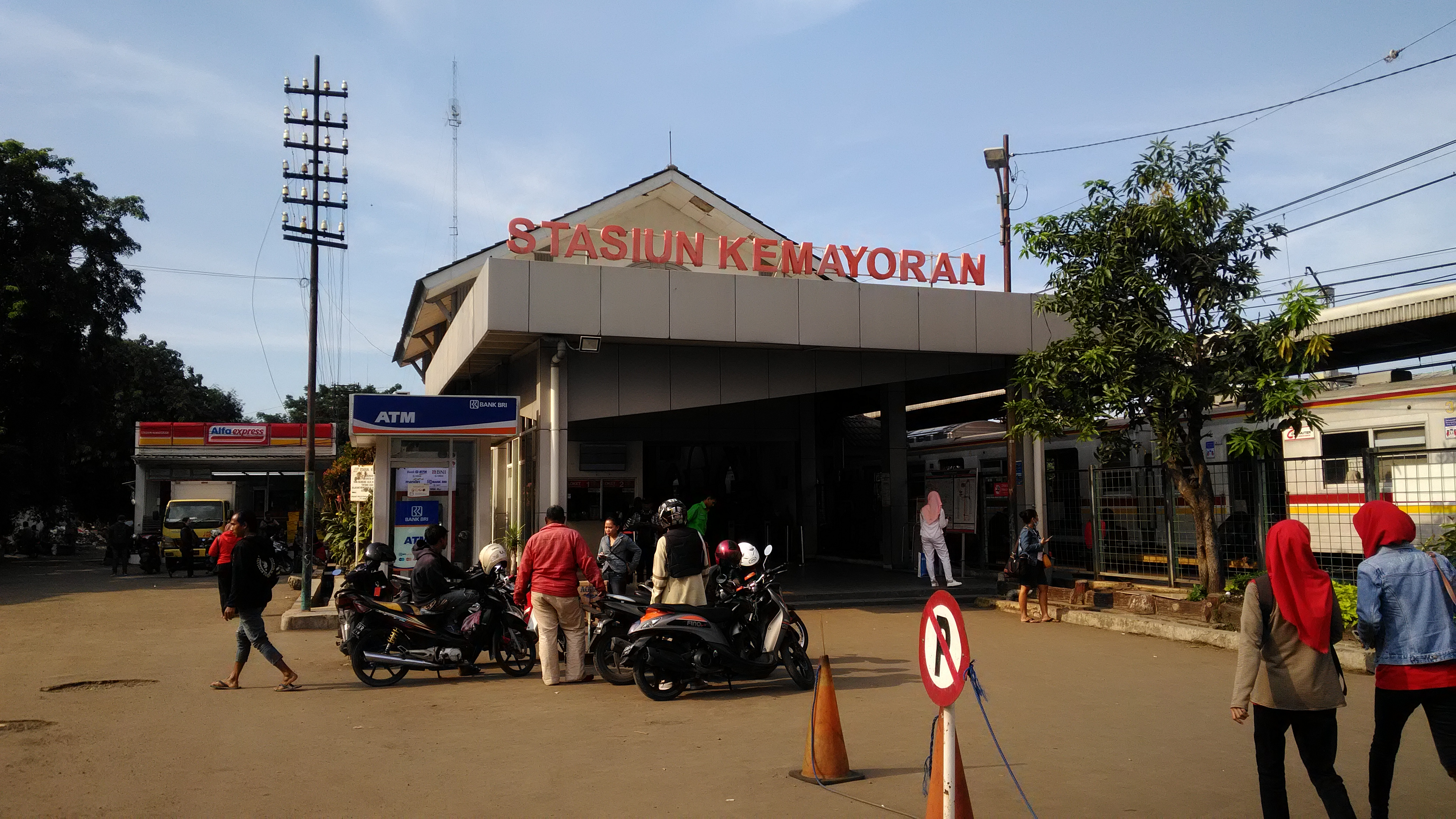 Kemayoran Station at Outside